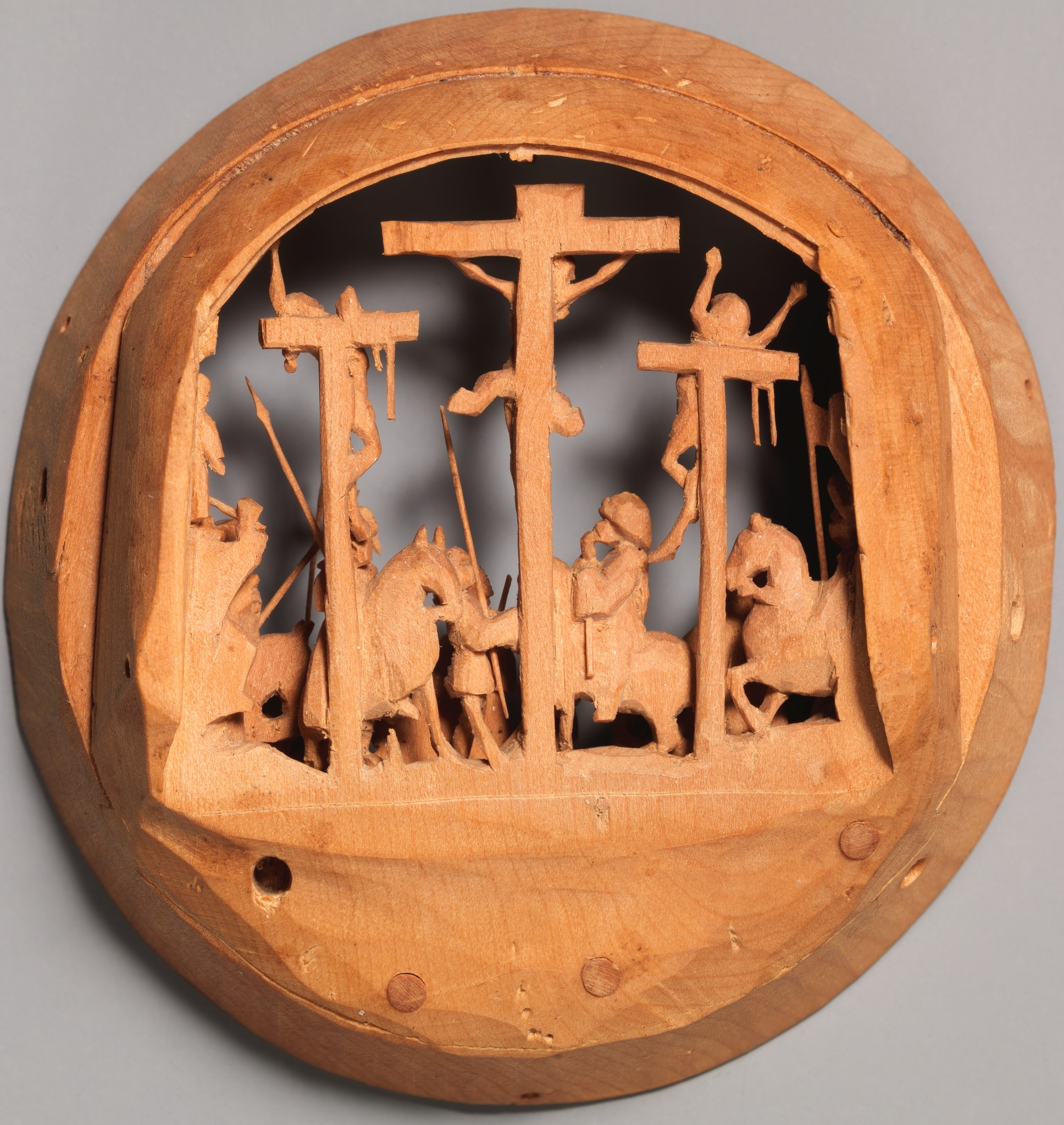 Netherlandish; Rosary bead; Sculpture-Miniature-Wood